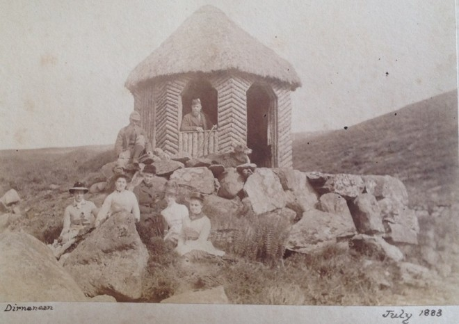 Photo of James Small (1835-1900), Laird of Dirnanean peering out of the window of his summer house above the Dirnanean Burn